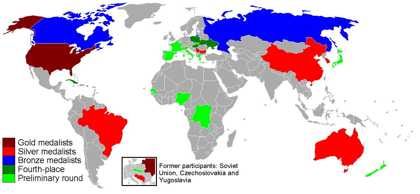 Top finishes of countries that played in the women's tournament of basketball at the Summer Olympics.